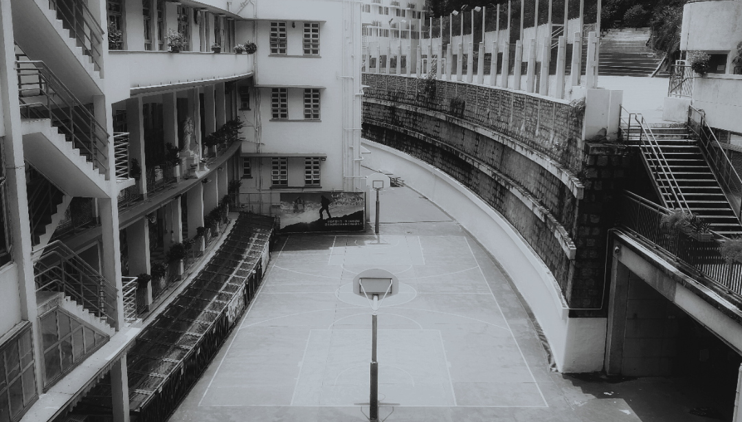 Basketball court at Primary Section & Upper Playground of Secondary Section at the top right